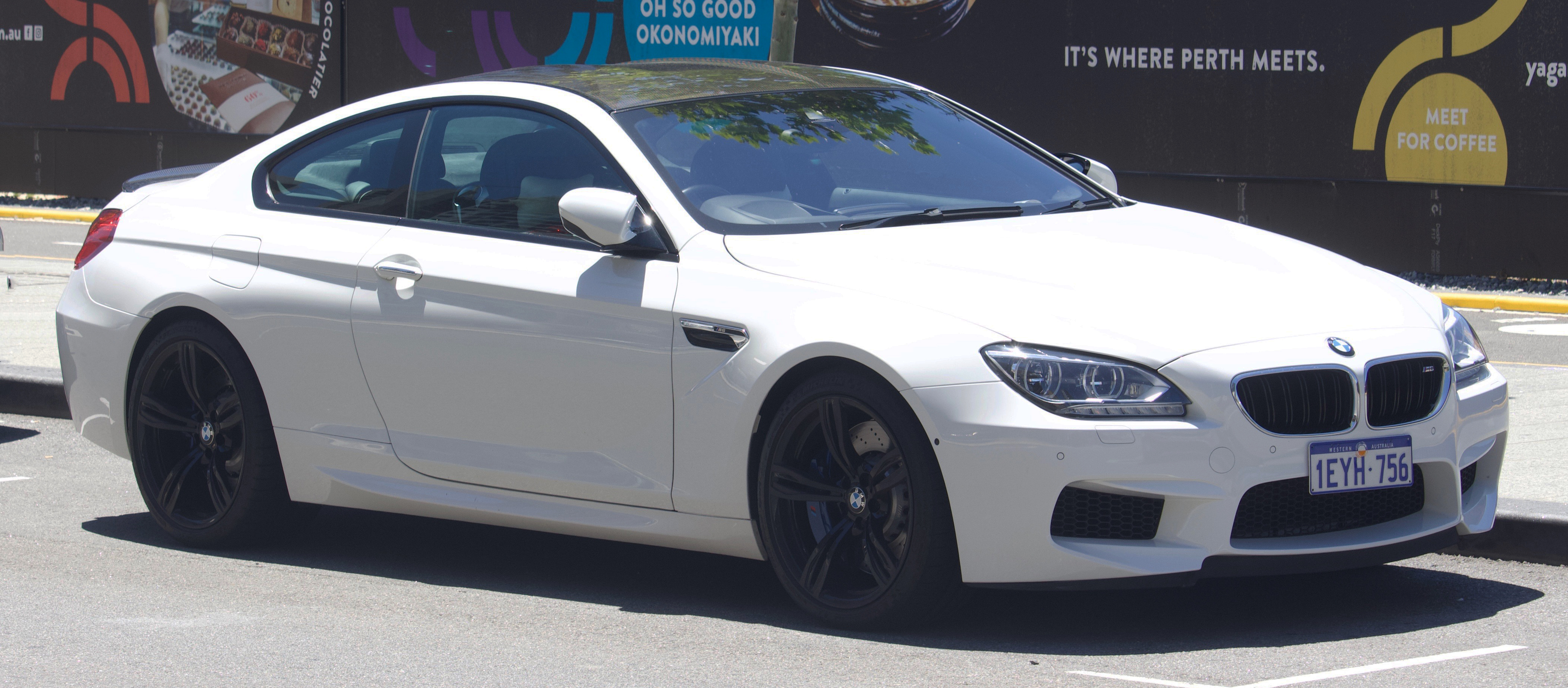 2012 BMW M6 (F13) coupe. Year of car determined through official BMW website. This car is affected through the Takata Airbag recall crisis. Whilst plate is from 2016, this car is actually built in 2012. Photographed in Perth, Western Australia, Australia.